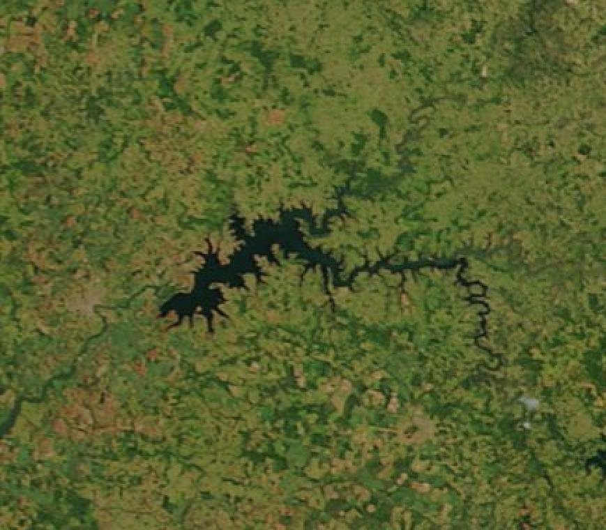 A Satellite picture showing Brisas lake, a reservoir in Paranaíba river created by Itumbiara Dam.